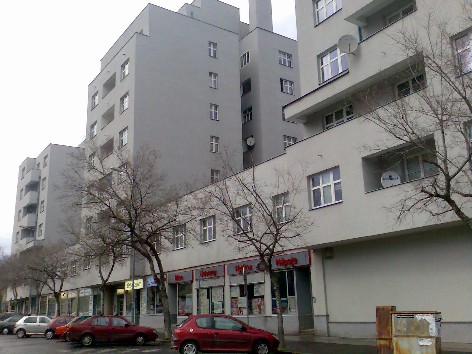 Avion Bratislava